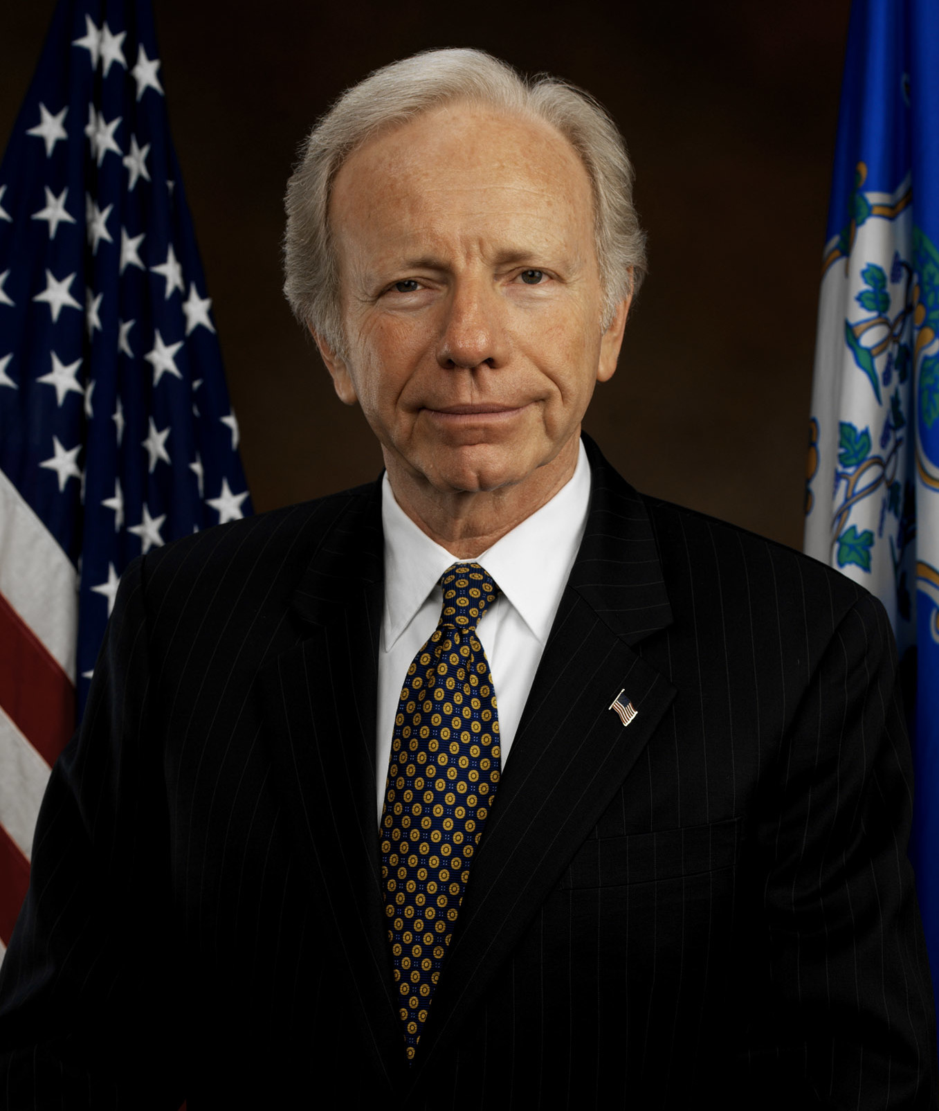 Joe Lieberman, official photo.